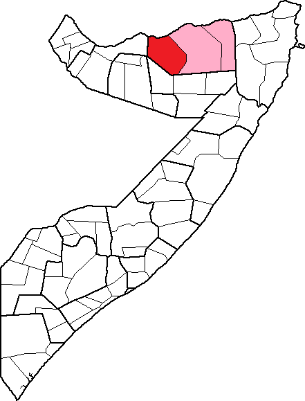 Location of the El Afweyn (Ceelafweyn) district in the Sanaag region, Somalia. Boundaries reflect those endorsed by the Republic of Somalia in 1986.